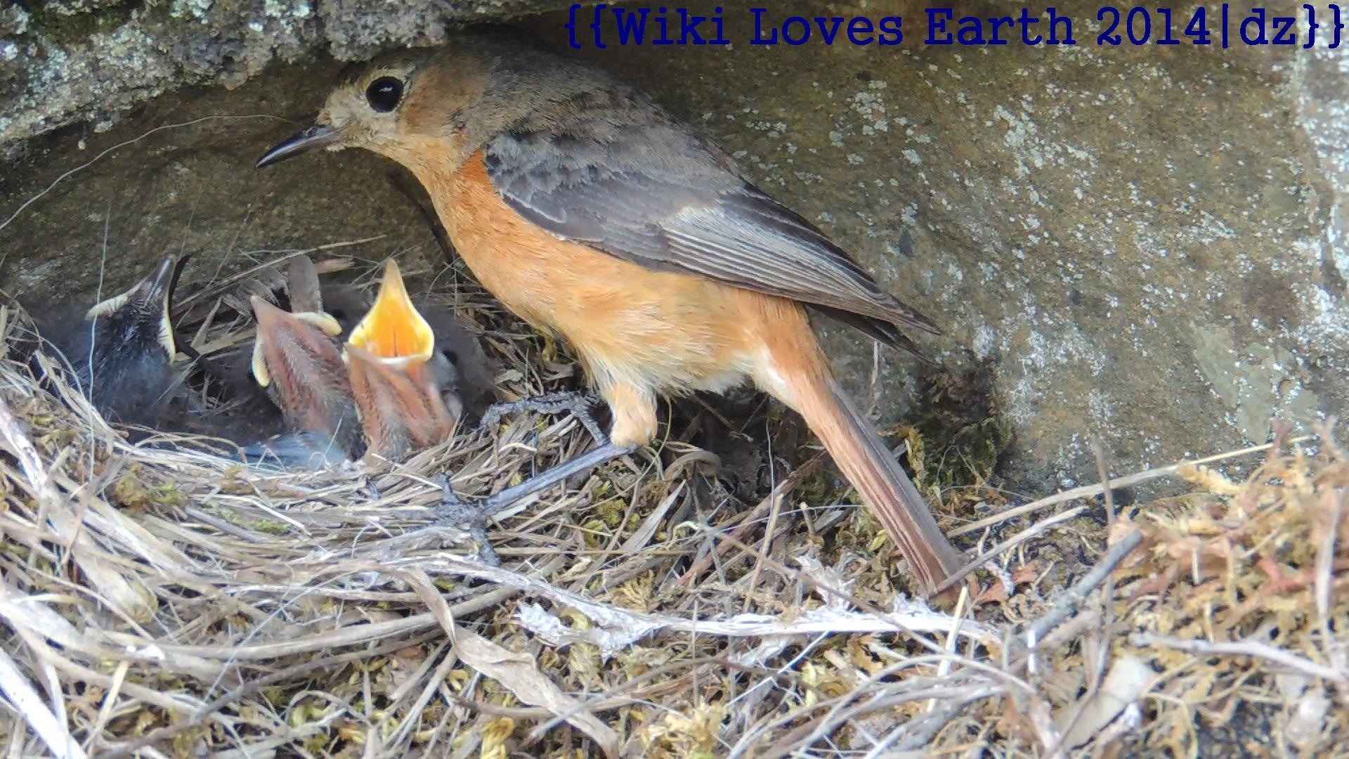 Birds in Abizar, Algeria